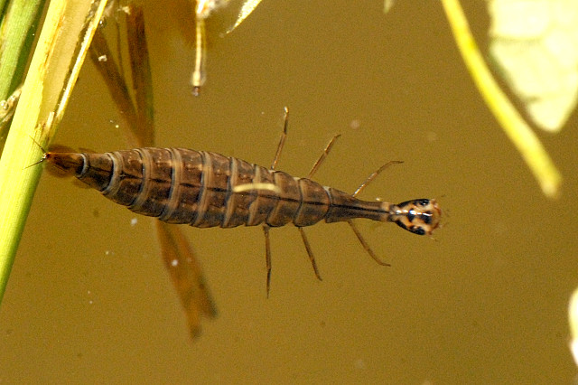 Acilius sulcatus from Commanster, Belgian High Ardennes .